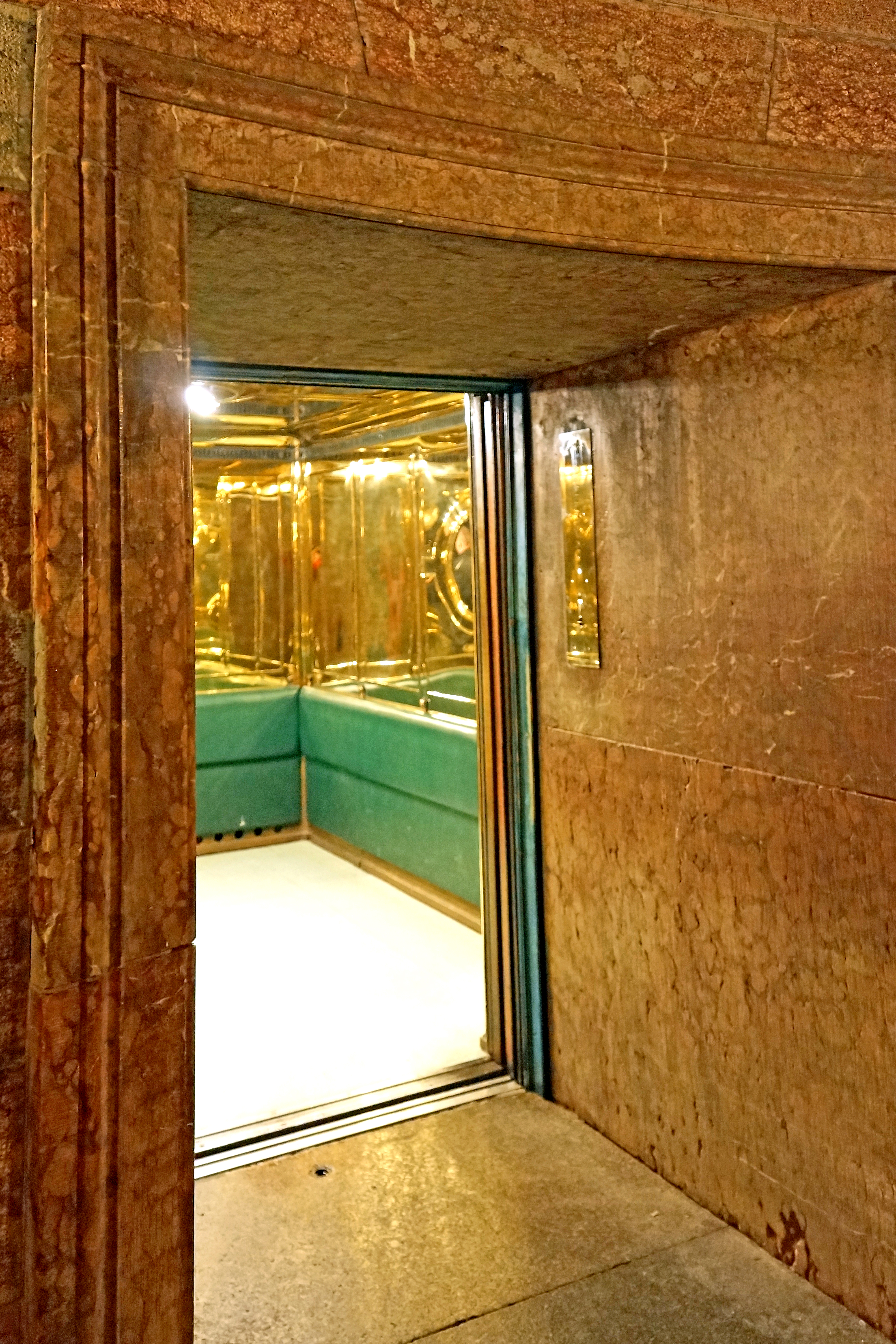 PLEASE, NO invitations or self promotions, THEY WILL BE DELETED. My photos are FREE to use, just give me credit and it would be nice if you let me know, thanks. The elevator, which can carry 53 passengers at one time, is shown through the open door. It rises 124 m (407 ft) to the top. Interior of the elevator is lined with polished brass and has round Venetian mirrors on the walls. Hitler's "Eagle's Nest" was designed and built for Adolf Hitler's 50th Birthday by his personal secretary and Head of the Nazi Party Chancellery Martin Bormann. The monument is called "Kehlsteinhaus" in German because of it was originally intended to be a "Teahouse" for as a retreat and place to entertain friends and visiting dignitaries. The Eagle's Nest wasn't damaged during the war, so it looks just like it did in April of 1945. Today it is open seasonally as a restaurant, beer garden, and tourist site.